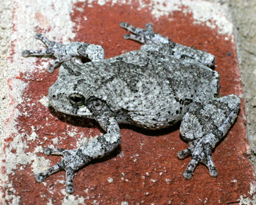 Cope's gray treefrog, Hyla chrysoscelis. Location: Durham, North Carolina, United States. (The visually identical Hyla versicolor is not reported from this area. Reference: Bernard S. Martof et al. (1980). Amphibians and Reptiles of the Carolinas and Virginia. Chapel Hill: University of North Carolina Press. ISBN 0807842524.)